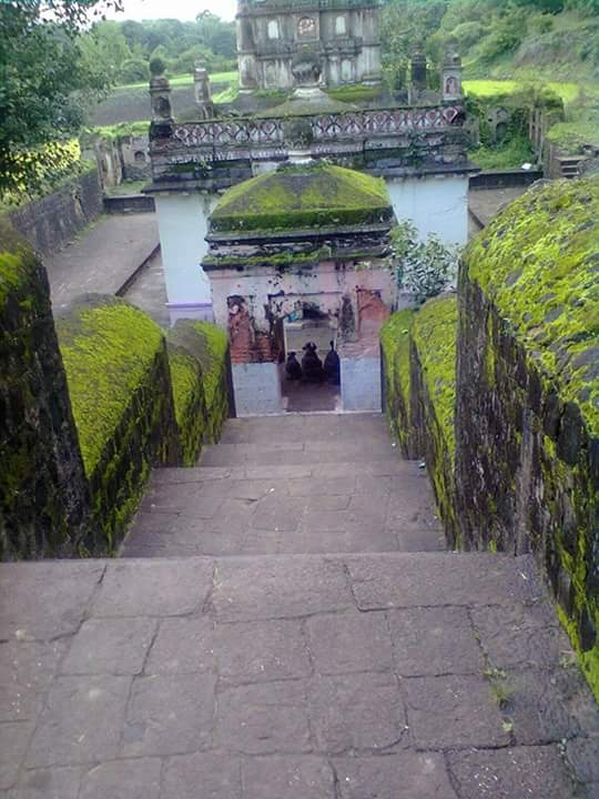 God Shiv Temple